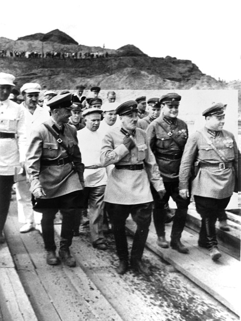 The OGPU-directors N. Filatov, Genrikh Yagoda, S. Firin and Lazar Kogan on the building-site of the Moskva-Volga-canal. Nikita Khrushchev is left behind Yagoda.